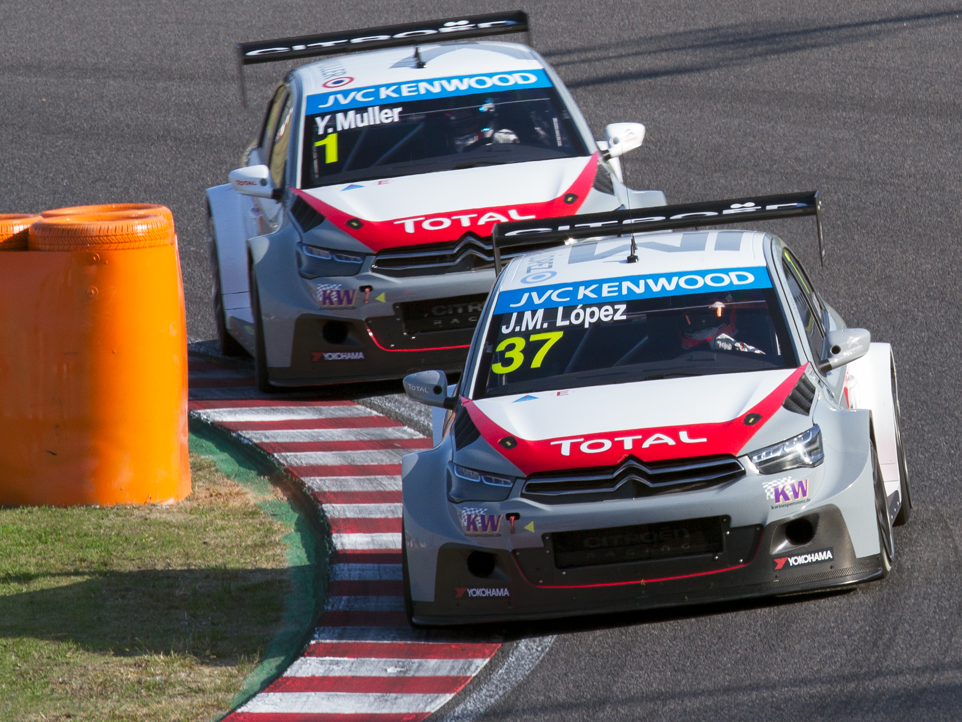 World Touring Car Championship 2014 Race of Japan: José María López (Citroën) and Yvan Muller (Citroën)